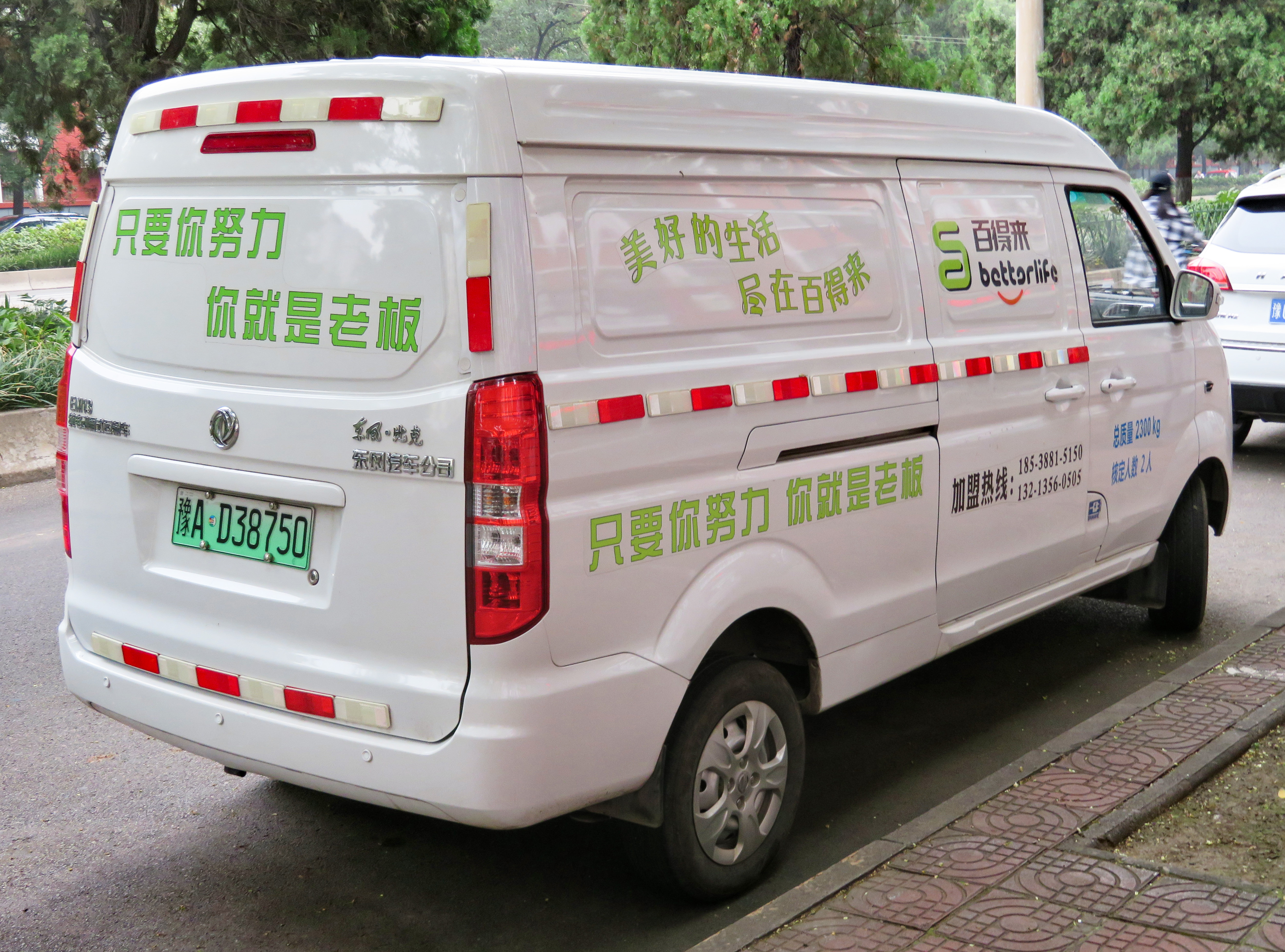 A 2018 Dongfeng EM13 Electric panel van photographed in Xigong District, Luoyang, Henan province, China